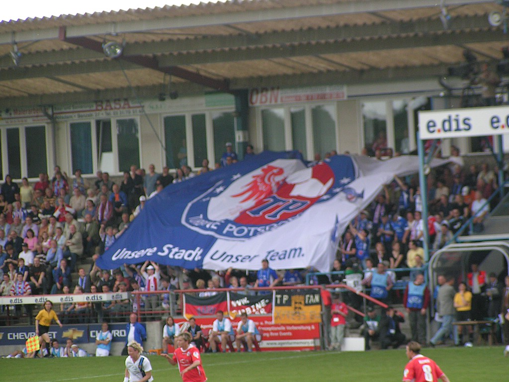 UEFA-Women's Cup Final 2005 at Potsdam: 1. FFC Turbine Potsdam - Djurgårdens IF / Älvsjö Stockholm at the Stadium "Karl-Liebknecht-Stadion" Source: taken by David Herrmann, 21. May 2005.